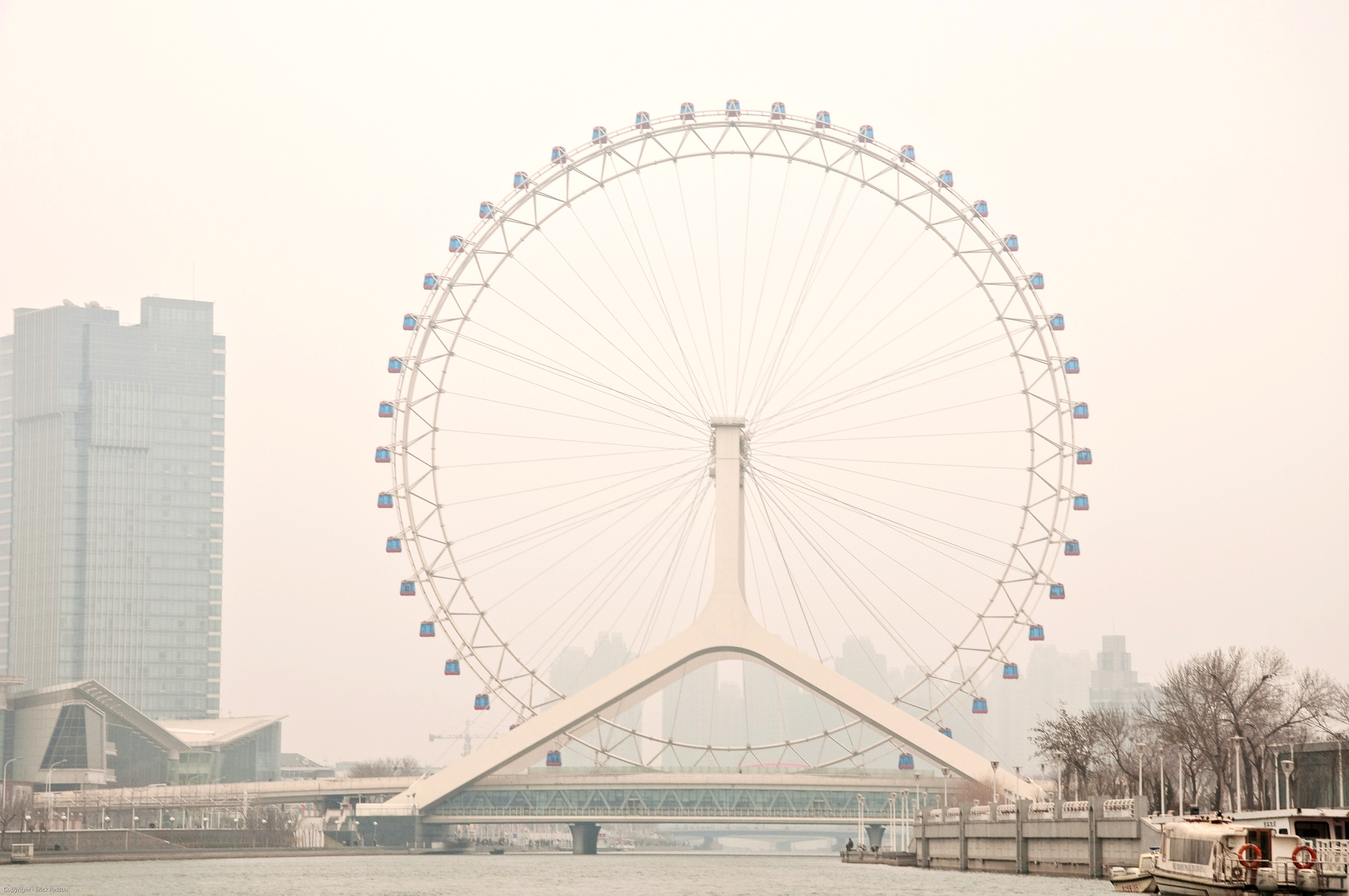 Tianin Eye, a ferris wheel in Tianjin, China